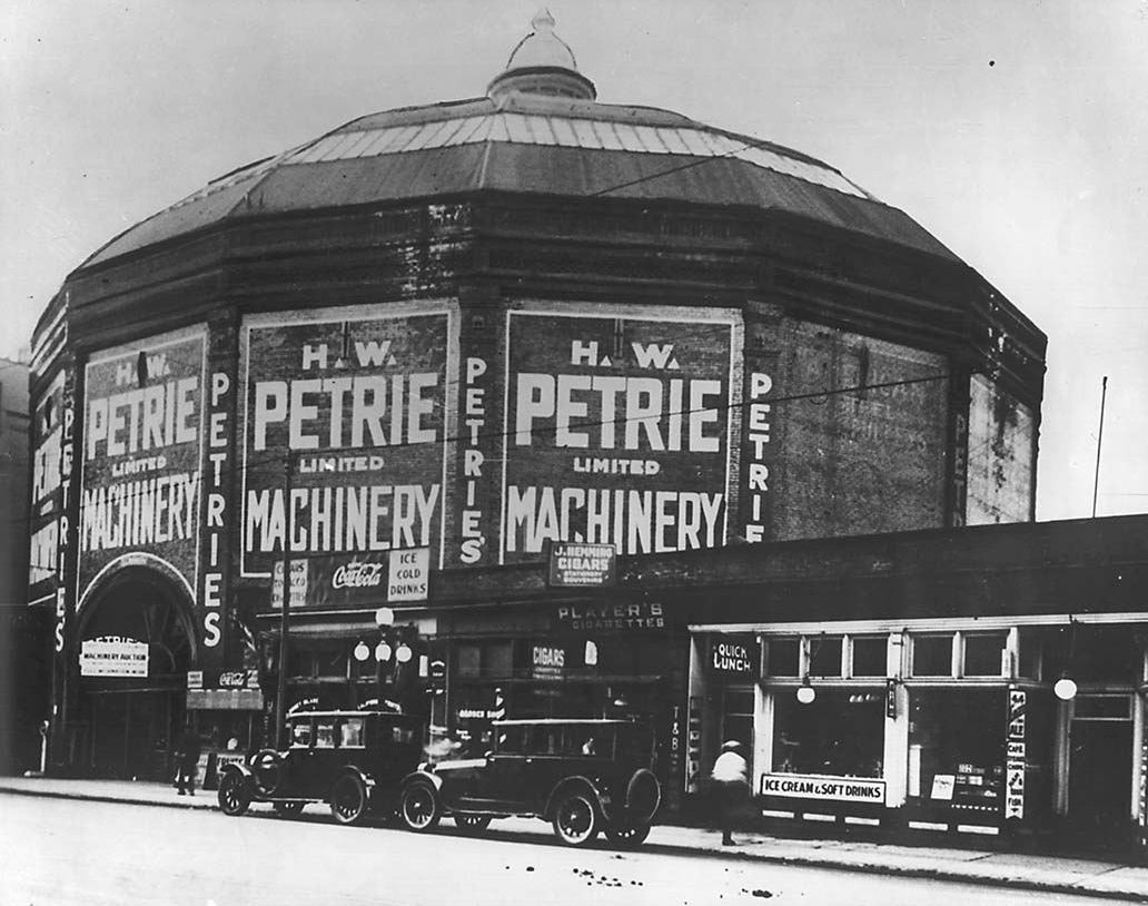 The Cyclorama on Front Street West, west of York Street, in Toronto, Ontario, Canada. Cycloramas were a popular form of entertainment and educational attraction in the 19th century, consisting of circular buildings in which large, panoramic paintings were installed, usually of a war or religious theme, intended to provide the viewer with a 360 degree view of a scene. The angles and proportions in the paintings were deliberately manipulated to give the illusion of distance and three dimensions. Toronto's Cyclorama was built in 1887 by the Toronto Art Company, and the opening exhibition was a depiction of the bloody 1870 Battle of Sedan in the Franco-Prussian war. The popularity of cycloramas waned, and the building was seized in 1899 for tax arrears. The building became the home of the Petrie Machinery Company (as shown in the image), and in the late 1920s a parking garage was built into the circular structure. The building was demolished in 1976. For more information, see Heritage Toronto - The Cyclorama.